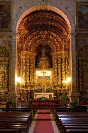 Altarpiece in Sta. Clara-a-Nova at Coimbra, with the casket whre Saint Elisabeth, queen of Portugal, is buried.